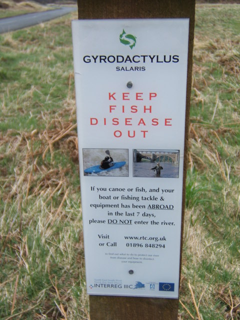 Gyrodactylus Salaris - WARNING! Its a small monogenean ectoparasite (about 0.5 mm long) which mainly lives on the skin of freshwater fish, especially Atlantic salmon. Other species that can be parasitized include rainbow trout